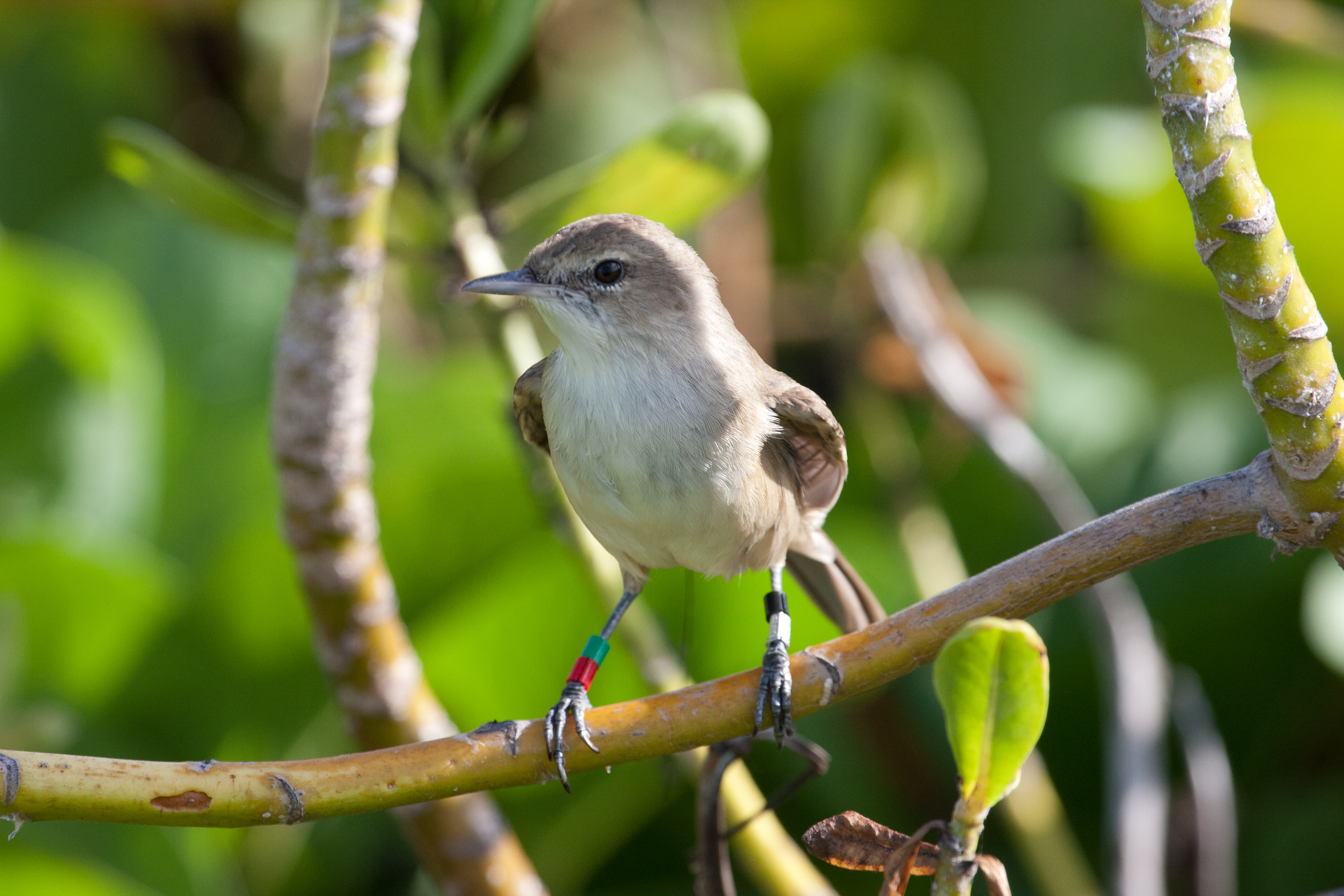 A Nihoa Millerbird in Laysan, Northwestern Hawaiian Islands, USA. One of several birds newly translocated from Nihoa to Laysan.